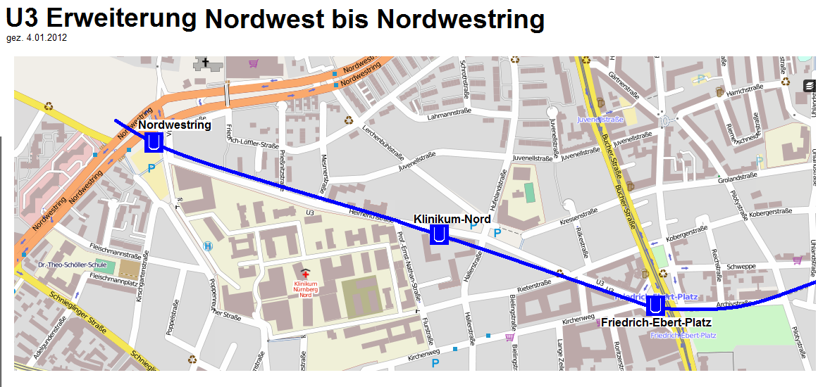 Map of U-Bahn_Nürnberg. This map may be incomplete, and may contain errors. Don't rely solely on it for navigation.